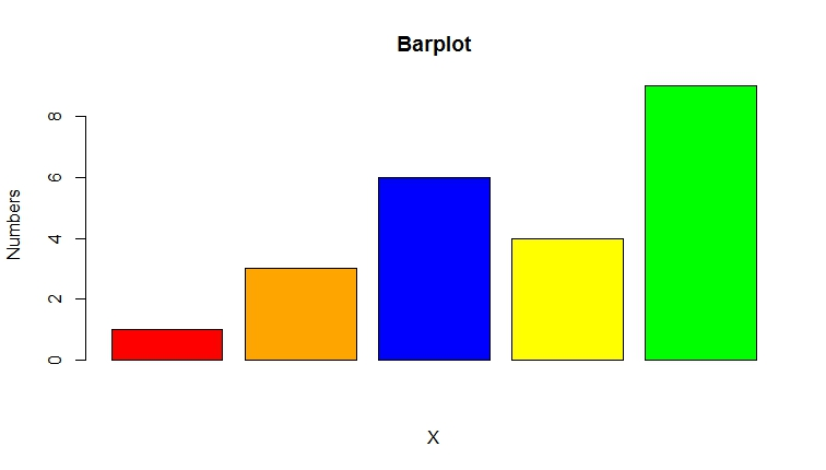 This is an example of barplot.